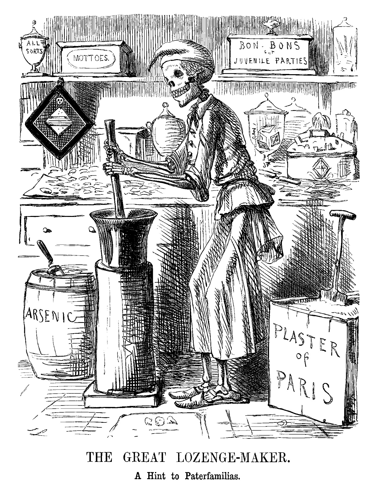 "The Great Lozenge-Maker. A Hint to Paterfamilias" (1858) by John Leech (1817-1864).